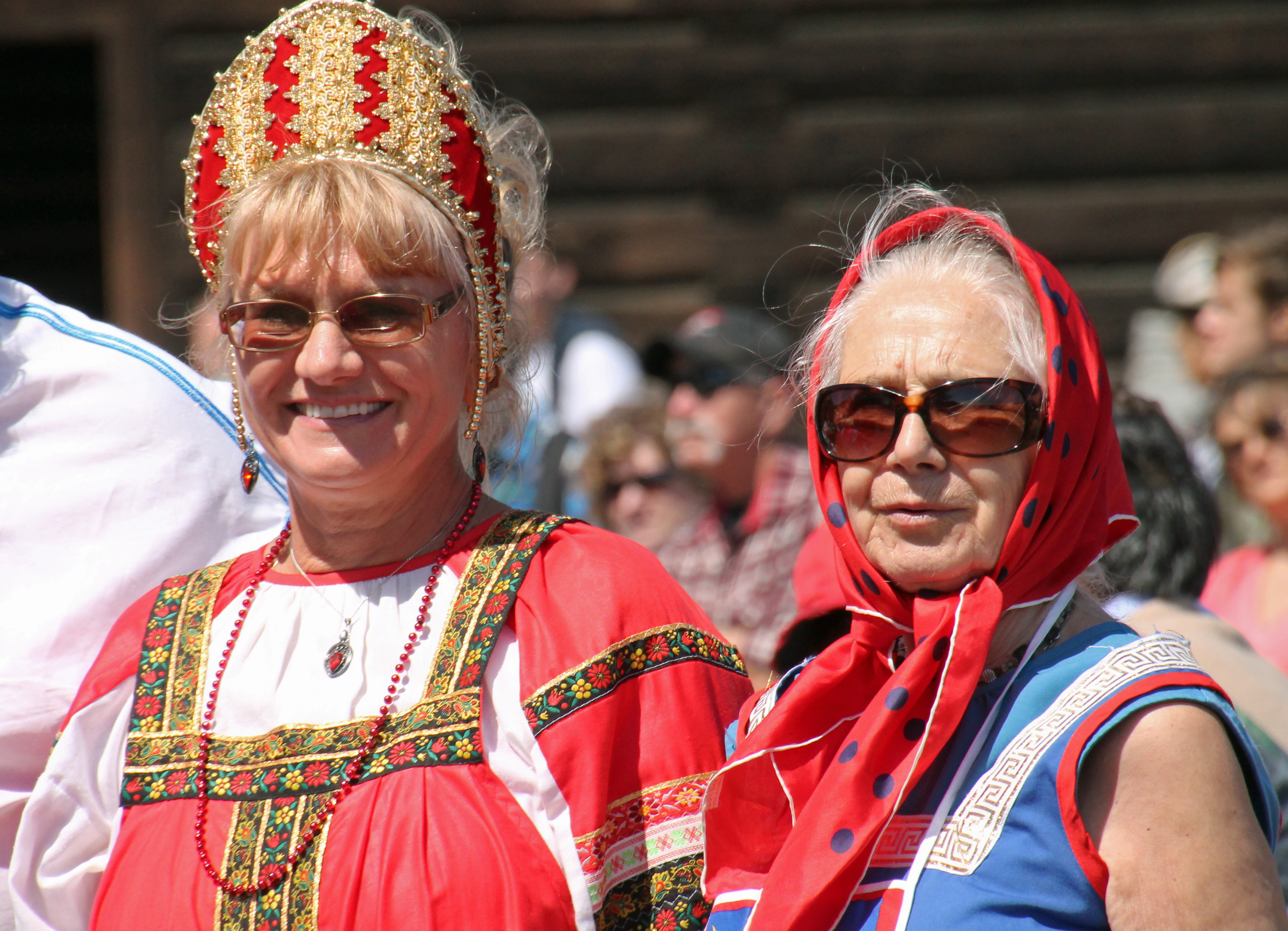 2015 Fort Ross Festival at Fort Ross State Historic Park in Sonoma County, California